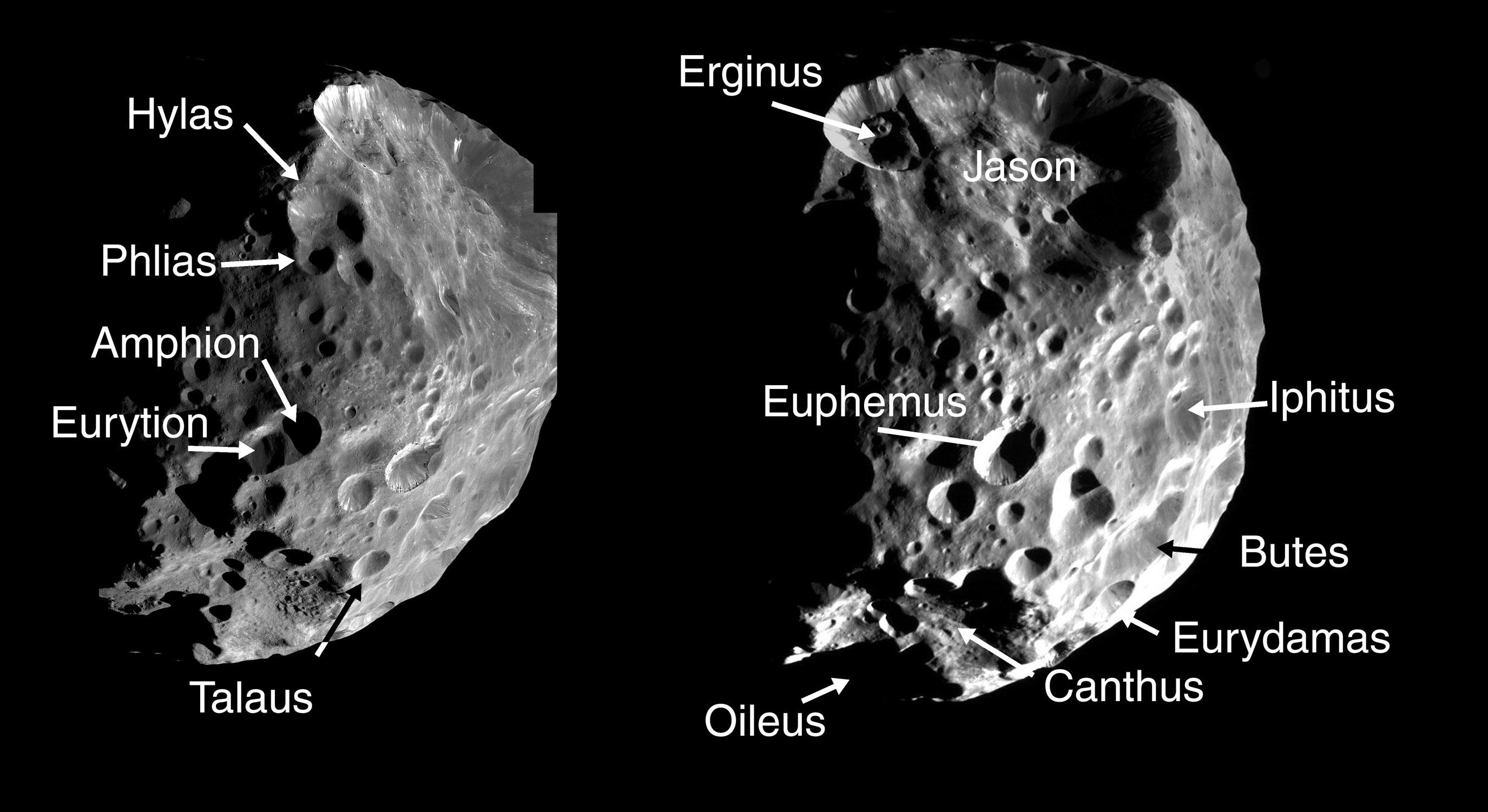 Credit: NASA/JPL/Space Science Institute, URL: (via )